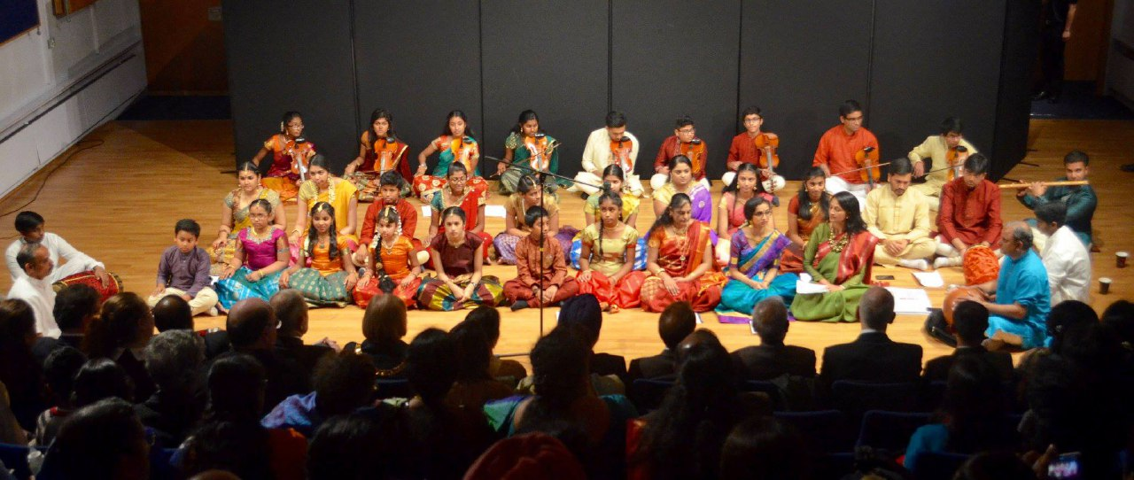 British Carnatic Choir at its premiere concert at the Birmingham Conservatoire in November 2015.